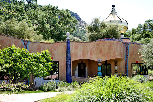 Elise Bauer took this image of Quixote Winery in the spring of 2007. The photo resides on the web at It is licensed with a Creative Commons Attribution license.